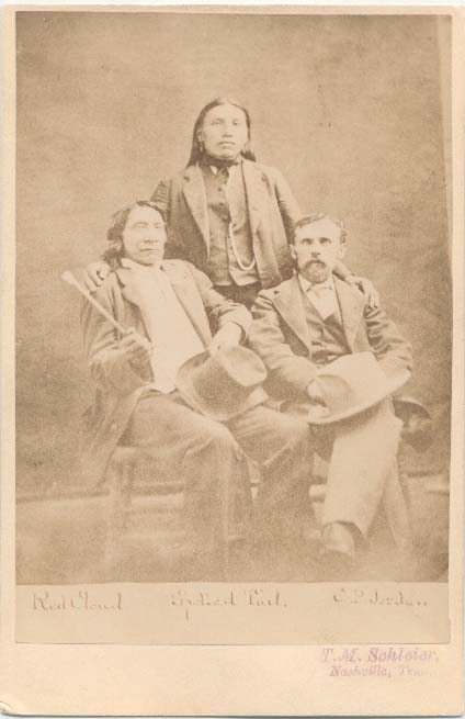 Cabinet card showing Sioux chiefs Red Cloud (left), Spotted Tail (standing), and Charles P. Jordan (a white friend of Red Cloud)